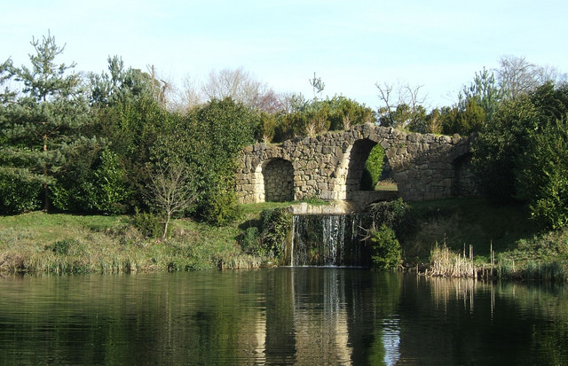 The Octagon Lake and Artificial Ruins, Stowe